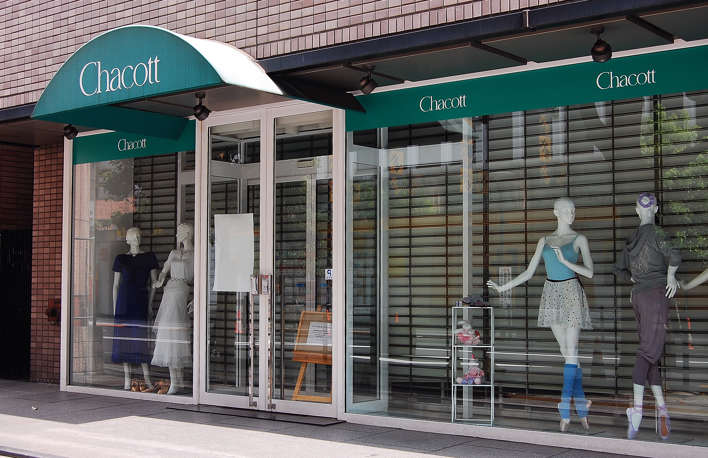 The shop of Chacott at Kichijōji, Tokyo, Japan.